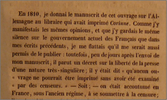 Beginning of foreword written by Madame de Staël when "De l'Allemagne" had been published in 1839